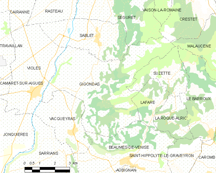 Map of French municipality Gigondas